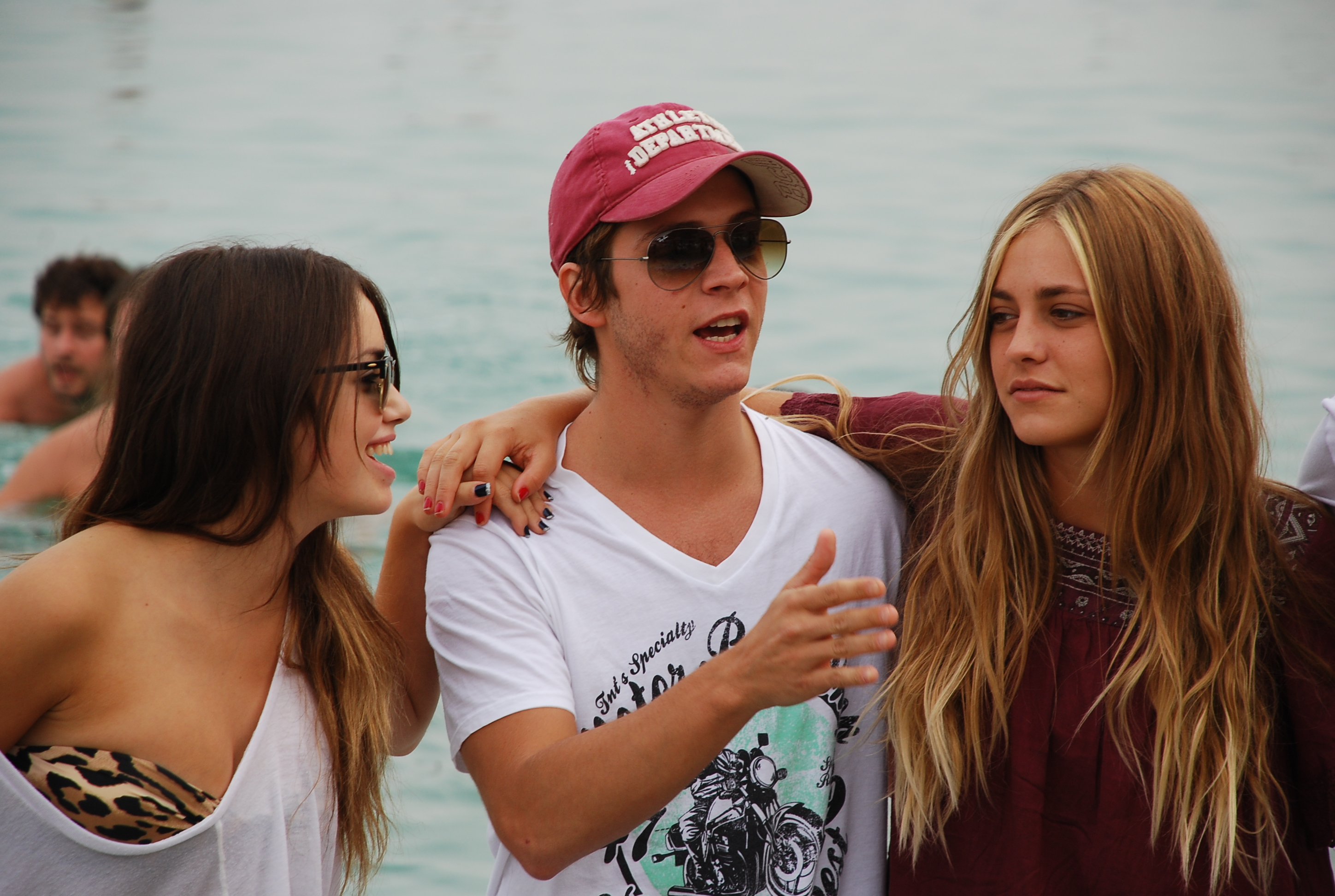 People of Israel